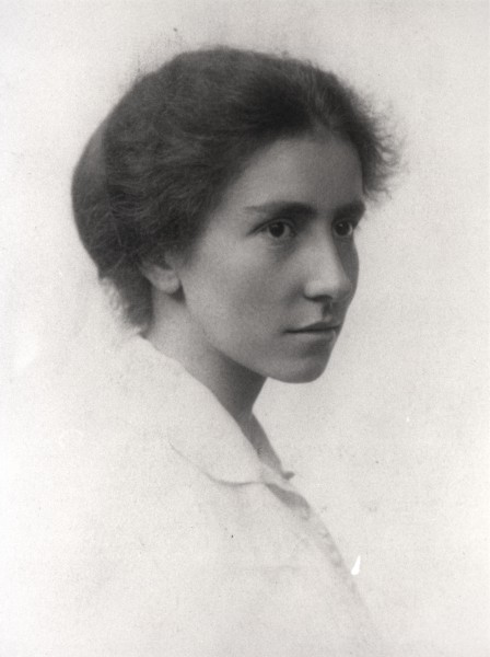 Dorothy Garrod, c.1913. Photograph by Newnham College, Cambridge